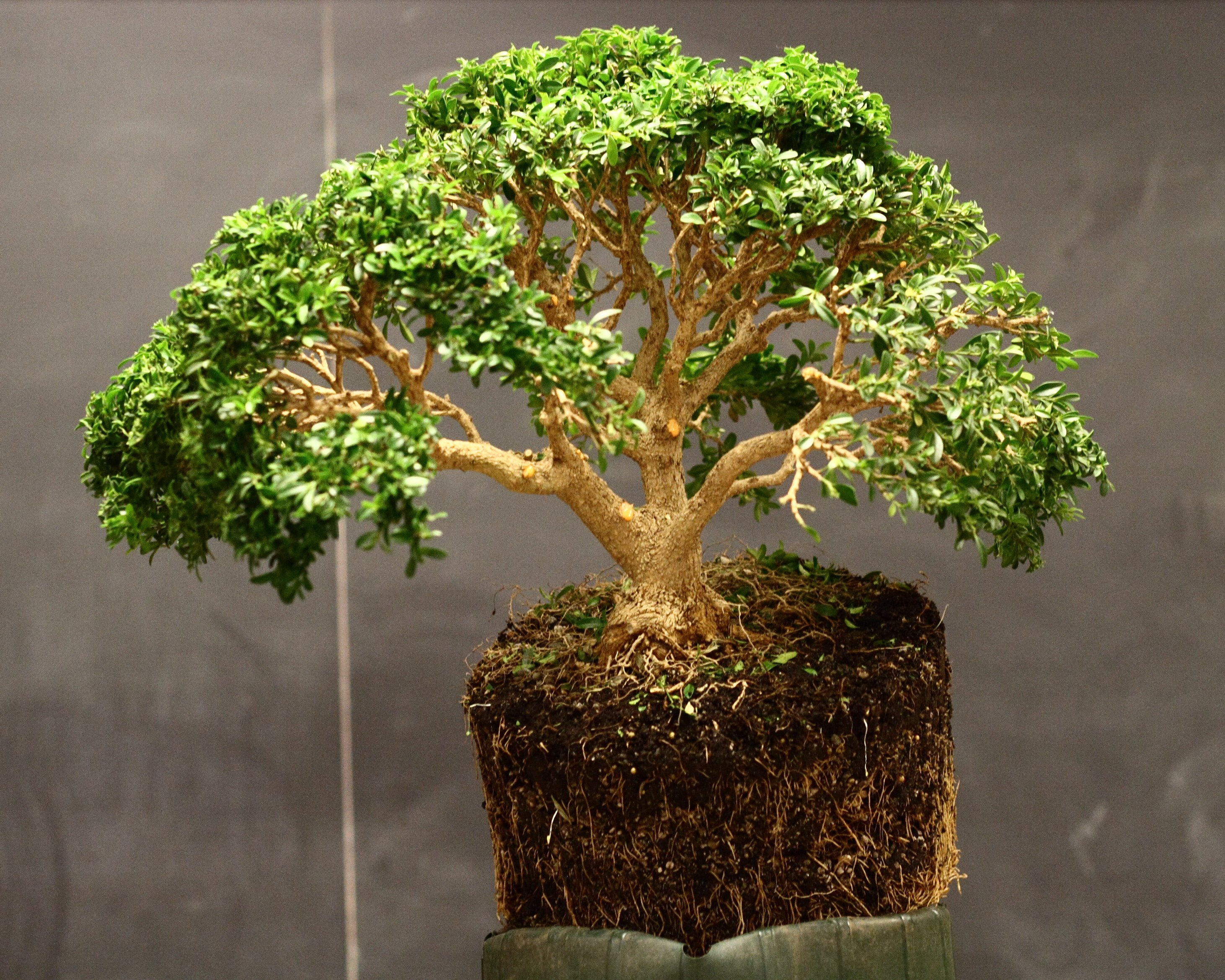 The result of a bonsai demonstration, using a 33 year old boxwood (a variety of Buxus microphyla), by master Min Hsuan Lo, at a meeting of the Bonsai Society of Greater Hartford